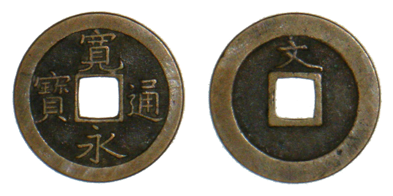 Kanei-tsuho-bun